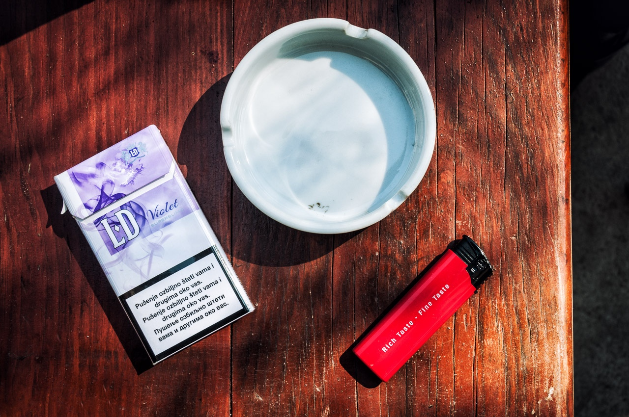 This is a pack of cigarettes you can buy in Bosnia. As you can see, it says the exact same thing ("Smoking is harmful to you and those around you") three times; twice in the Latin alphabet and one in the Cyrillic alphabet. Why is that? That is Bosnian, Croatian, and Serbian respectively. The language people in the Balkans speak is essentially the same, and the Serbs call it Serbian, the Croats call it Croatian, and Montenegrins call it Montenegrin. But since Bosnia is a multi-ethnic entity, they officially call it Bosnian-Croatian-Serbian. This sort of political correctness seems to be common now in Bosnia: the director of Sarajevo's museums refused to speak to the FT Weekend Magazine "for fear of saying something that might irritate any ethnic group". License plates use only letters T, K, J, O, A - they are the same in the Cyrillic and Latin alphabets. Full gallery